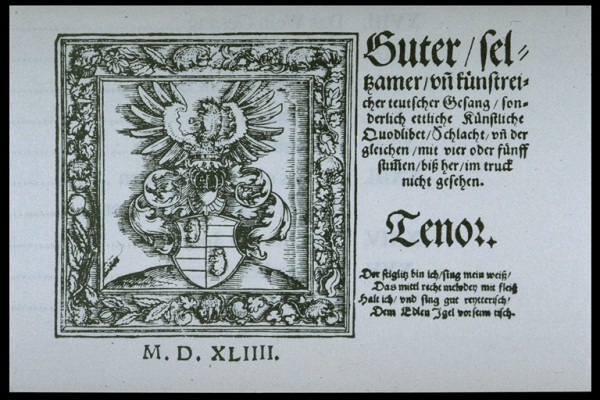 The title of Wolfgang Schmeltzl’s songs collection «Guter seltzsamer und künstreicher teutscher Gesang» (Nuremberg 1544) Guter / seltzamer / vnd künstreicher teutscher Gesang / sonderlich ettliche Künstliche Quodlibet / Schlacht / vnd der gleichen / mit vier oder fünff stimmen / biß her / im truck nicht gesehen.